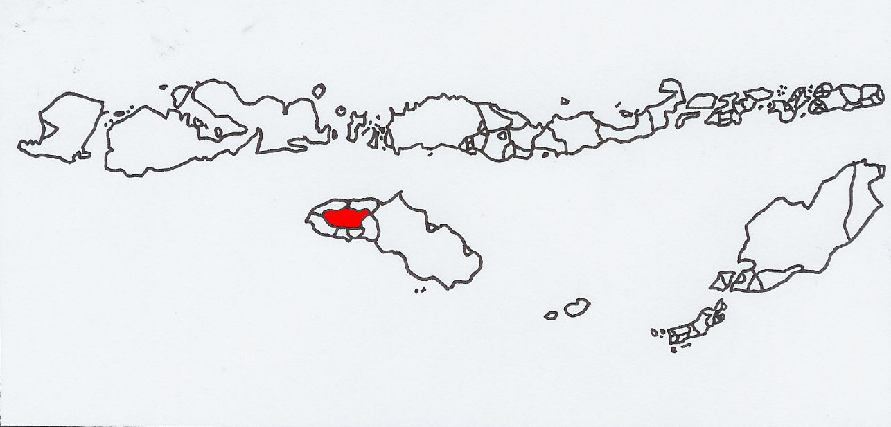 Map of the distribution of the Wejewa language.